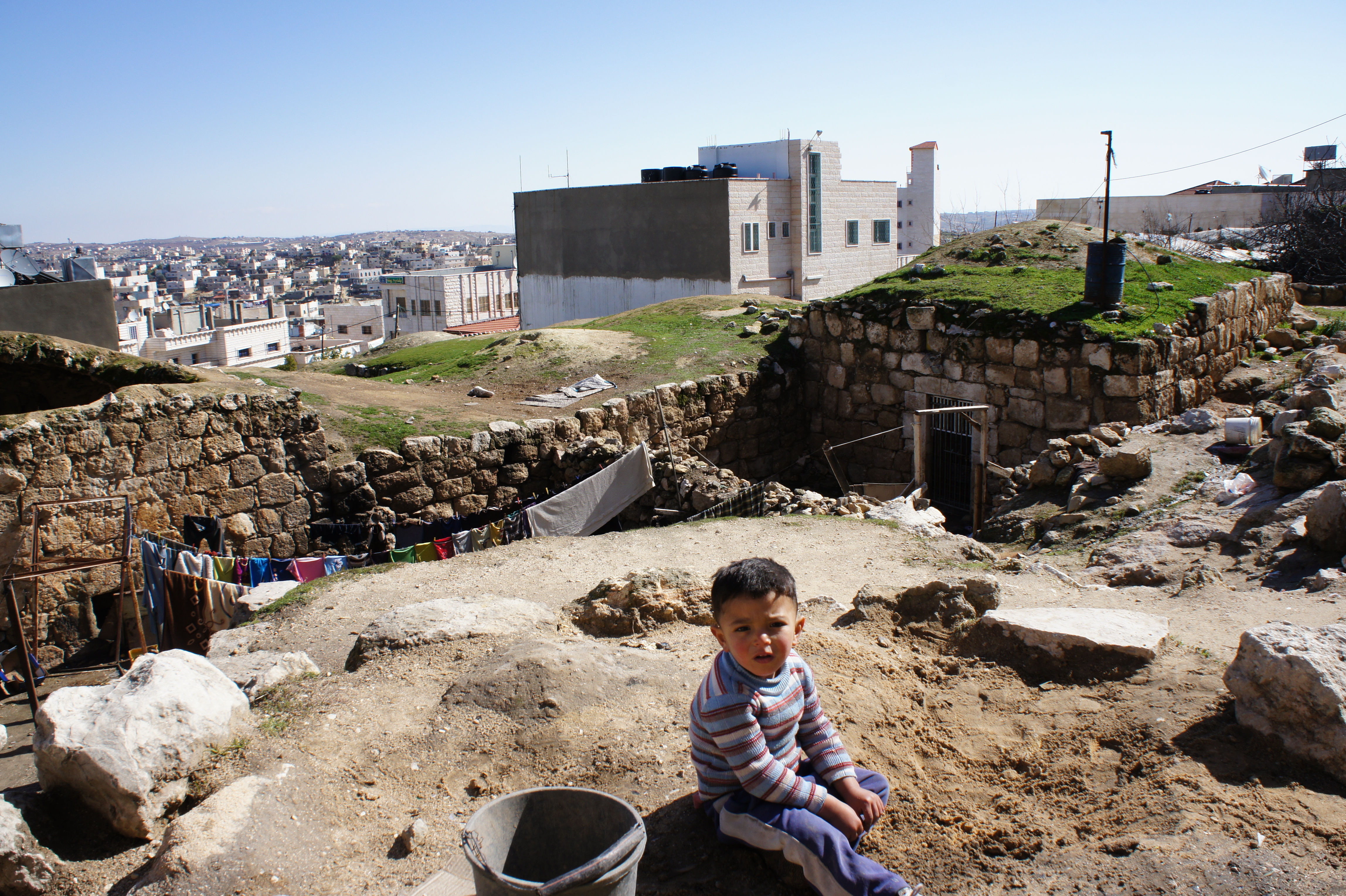 Young boy at Yatta, Hebron district, Palestine